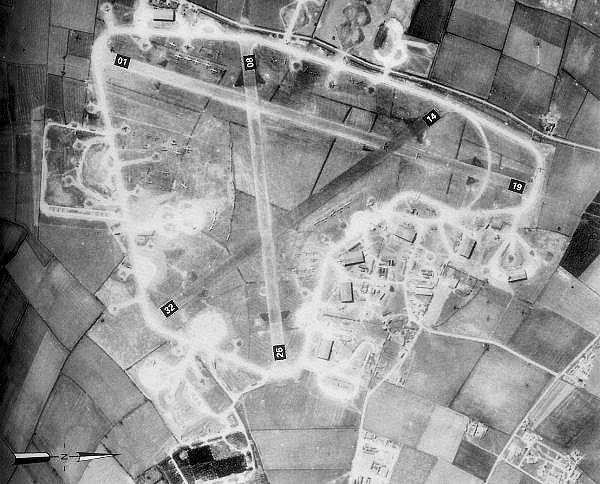 Aerial photograph of Bottesford Airfield, England.